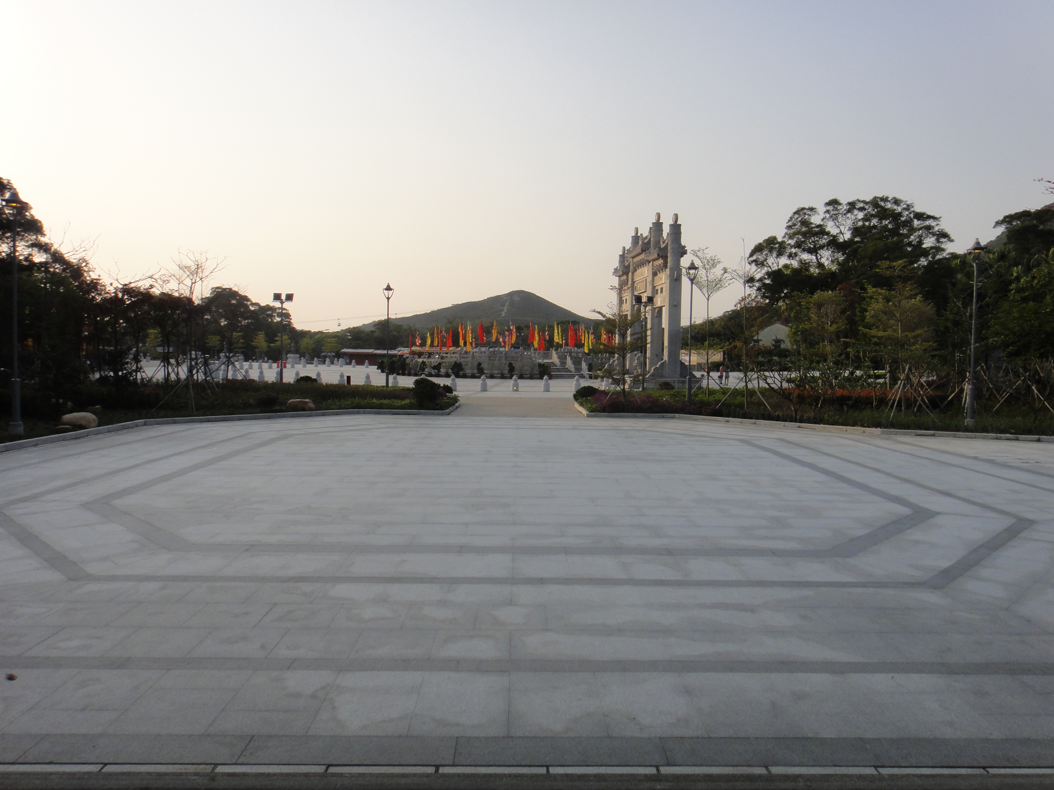 Tian Tan Buddha in Lantau Island